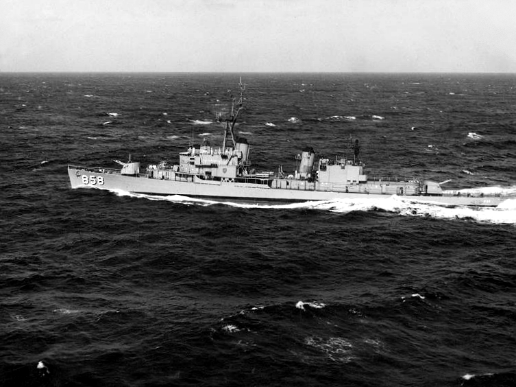 The U.S. Navy destroyer USS Fred T. Berry (DD-858) underway on 15 February 1966. She has the typical appearance of a FRAM II-modernized Gearing-class destroyer.